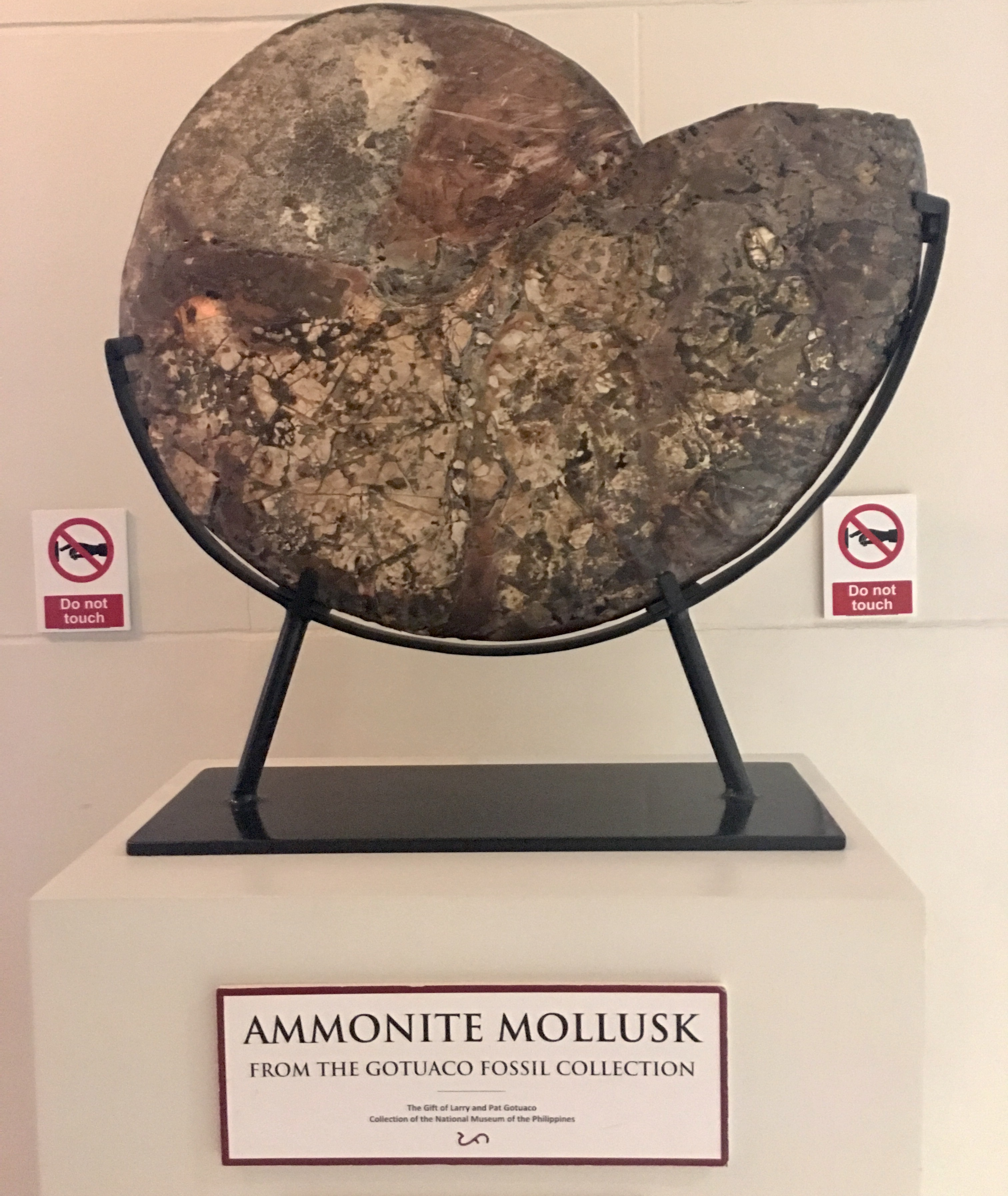 Fossilized Ammonite Mollusk displayed at Philippine National Museum